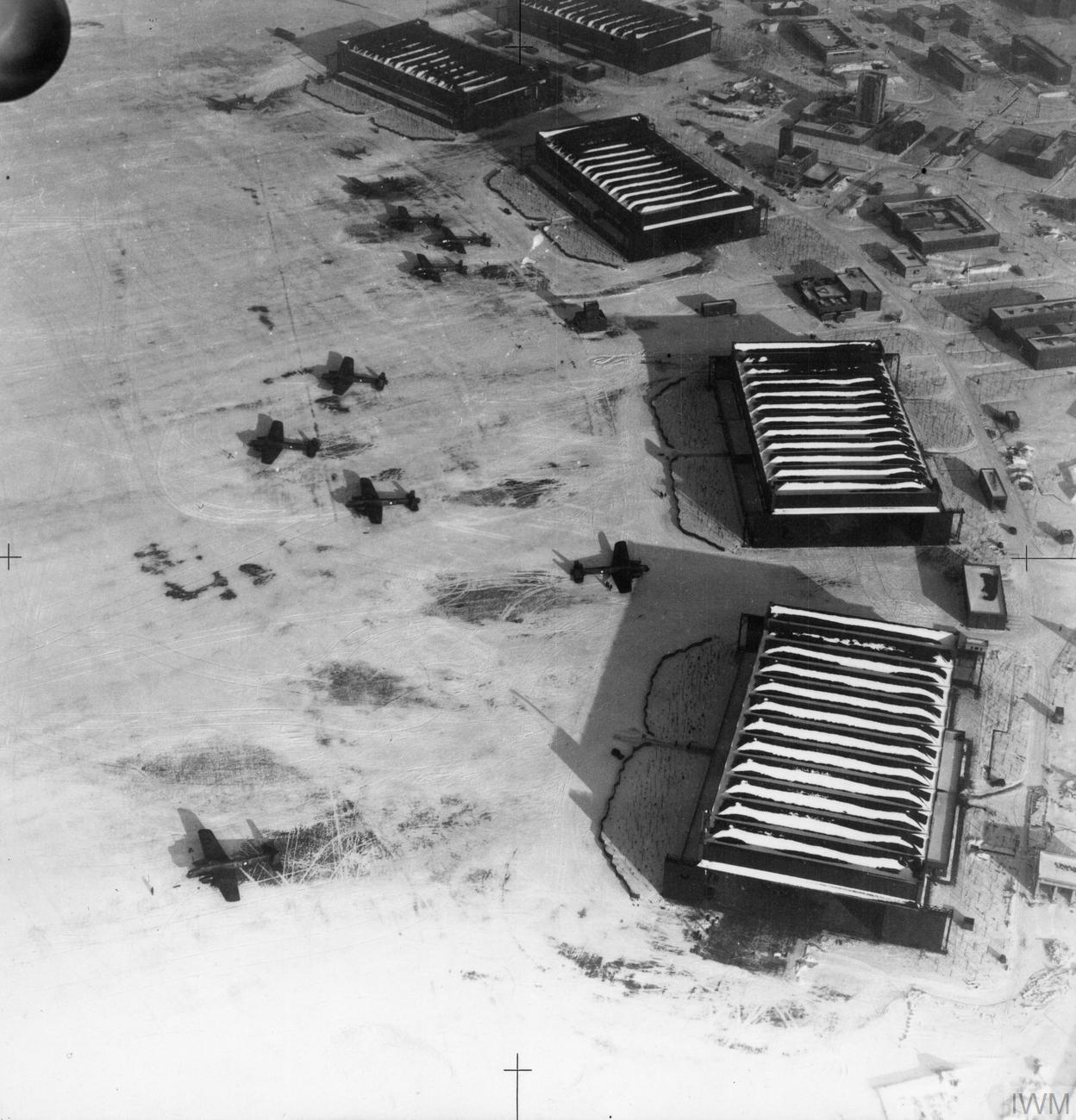 Aerial photograph showing part of RAF Driffield, with Armstrong Whitley Mark V bombers of No. 77 Squadron RAF parked in front of the hangars.